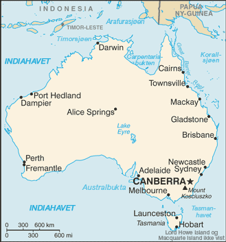 CIA map from the World Factbook of Australia with Norwegian text